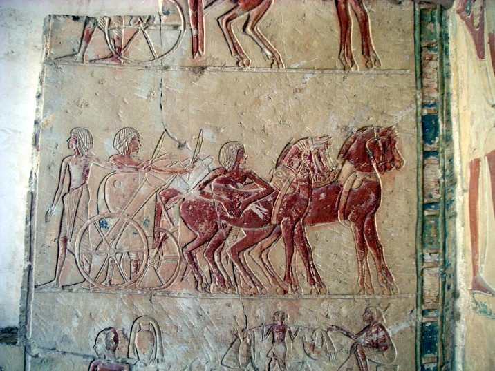 Relief of Horemheb's tomb - 18th dynasty of Egypt - Saqqara